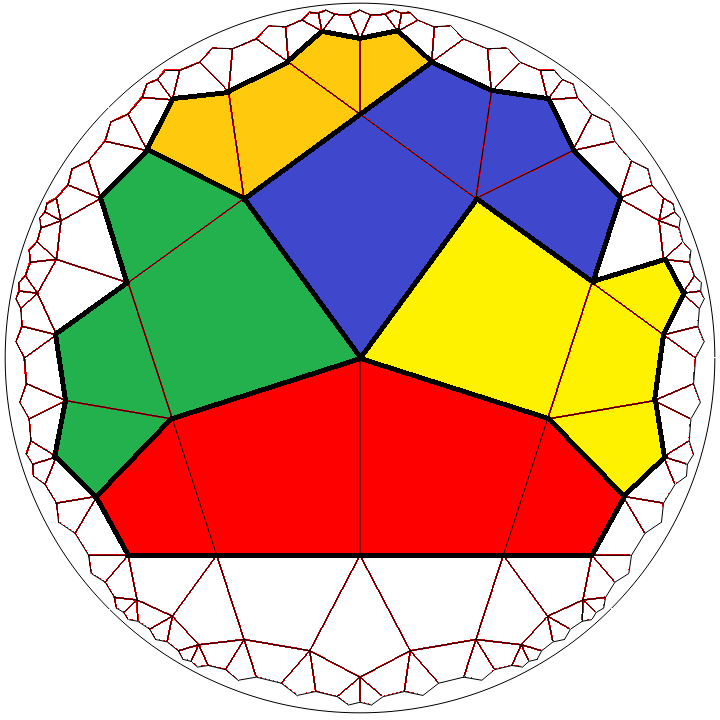 Five tetrominoes on order-5 square tiling ( Created using Tyler. Other versions